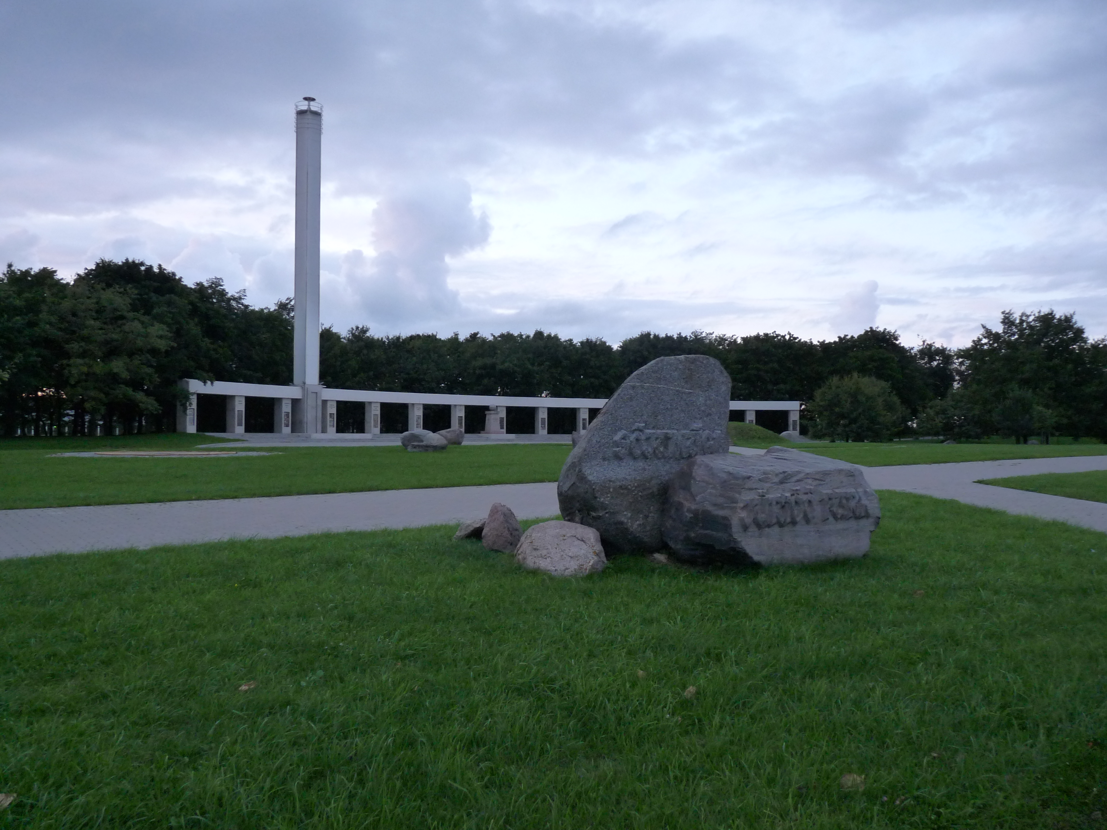 Jüriöö park (St. George's Night Park) in Lasnamäe, Tallinn to commemorate the St. George's Night Uprising.